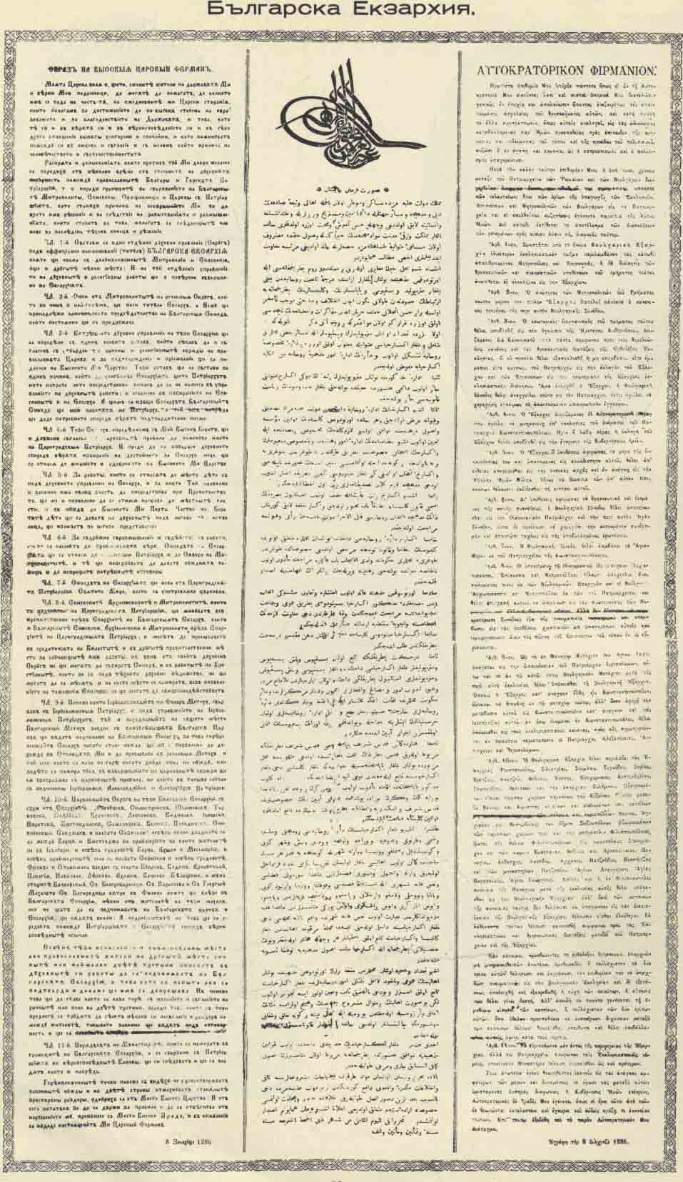 Firman of Sultan Abdülaziz for the establishment of the Bulgarian Exarchate